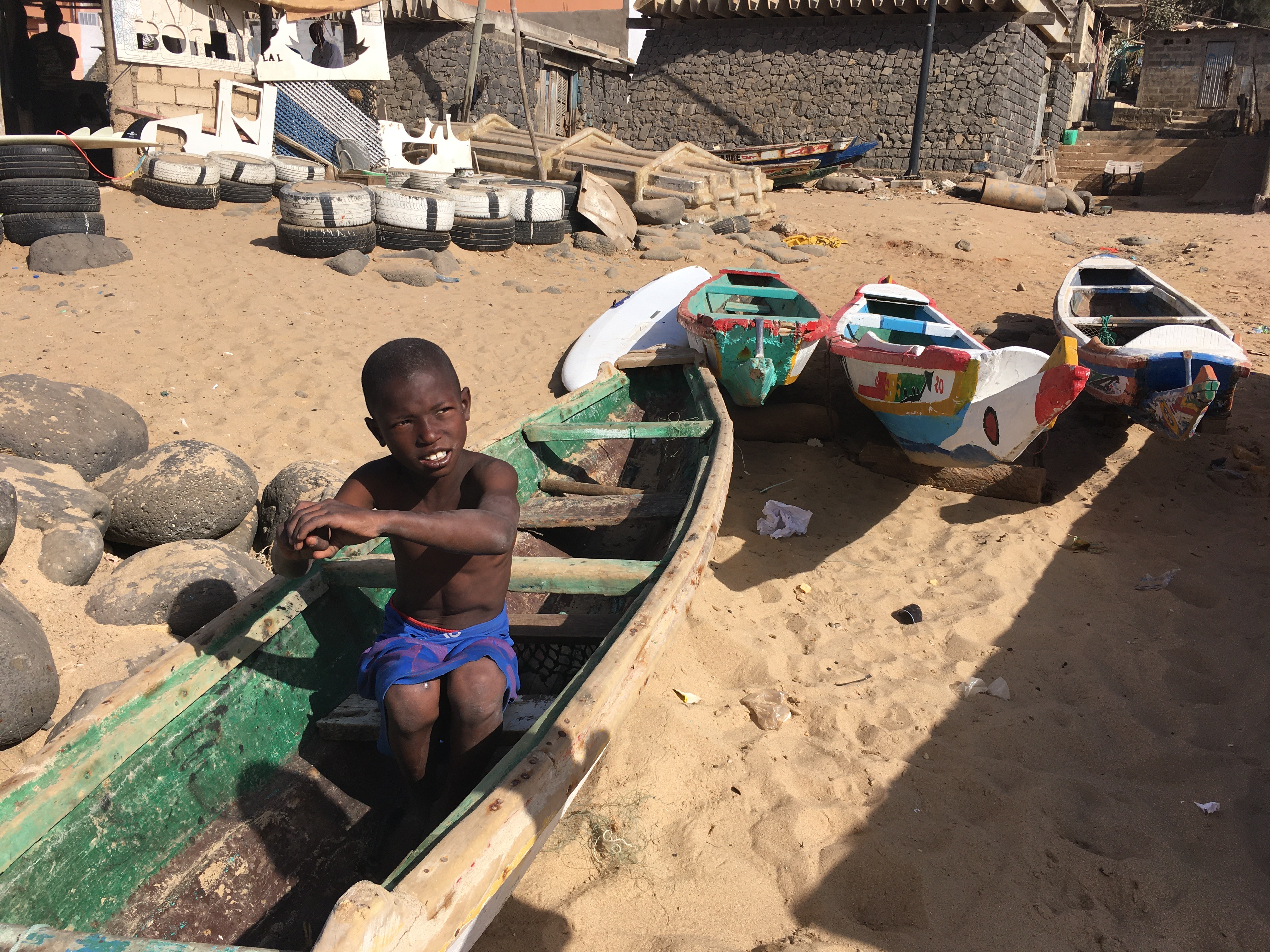 It was such a treat to capture this little Senegalese boy sitting inside a traditional "pirogue" completely lost in his daydream pretending to row out to sea. This is an image with the theme "Africa on the Move or Transport" from: Senegal